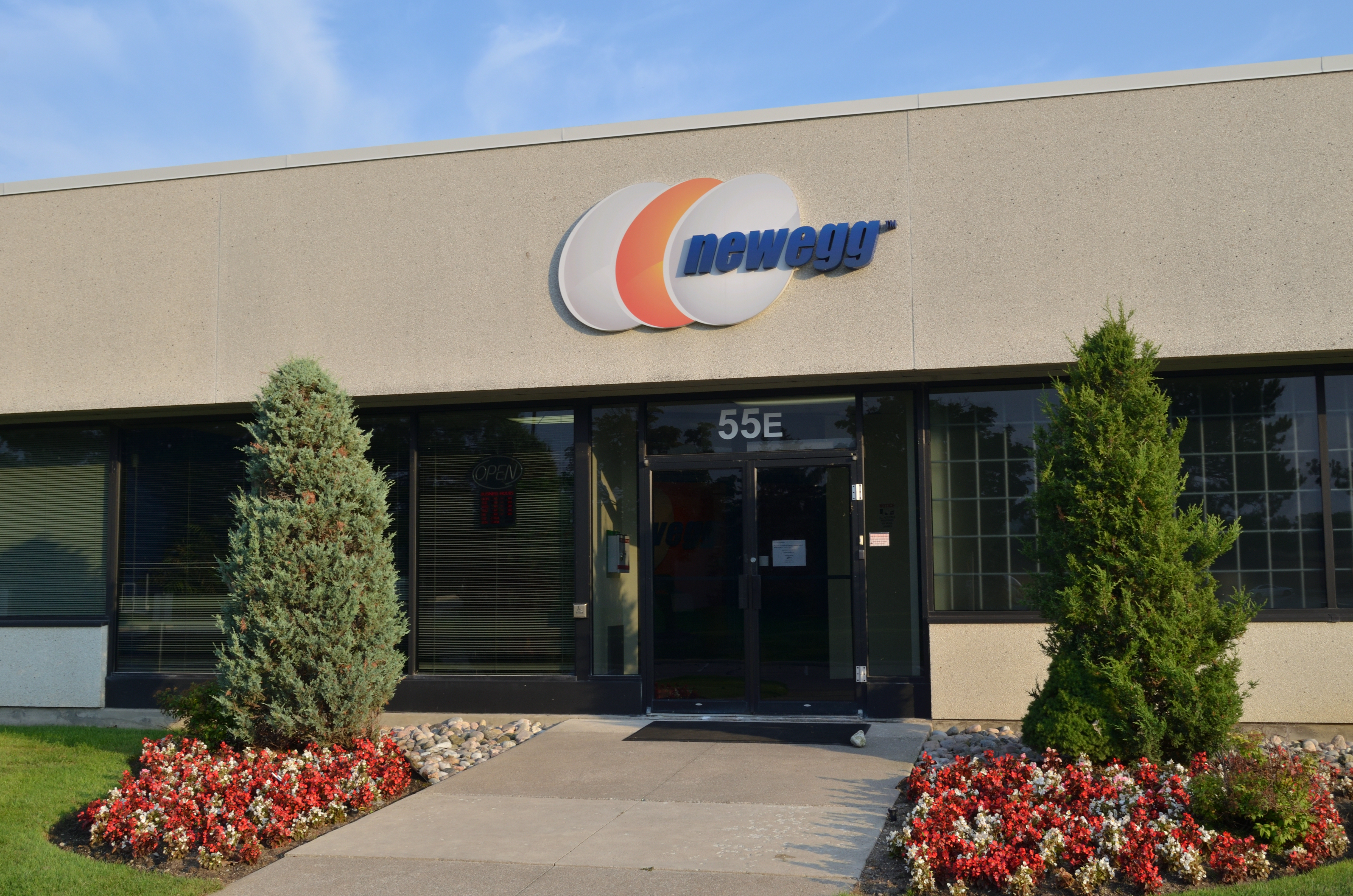 Newegg office in Richmond Hill